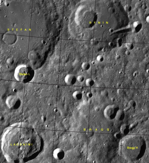 Part of the chart LAC-36